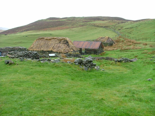 Old Croft Houses at Achnaha Work on restoring these buildings was started a few years ago, but it seems to have ceased.